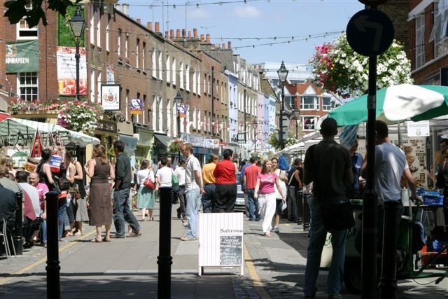 The Exmouth Market Trader's Association